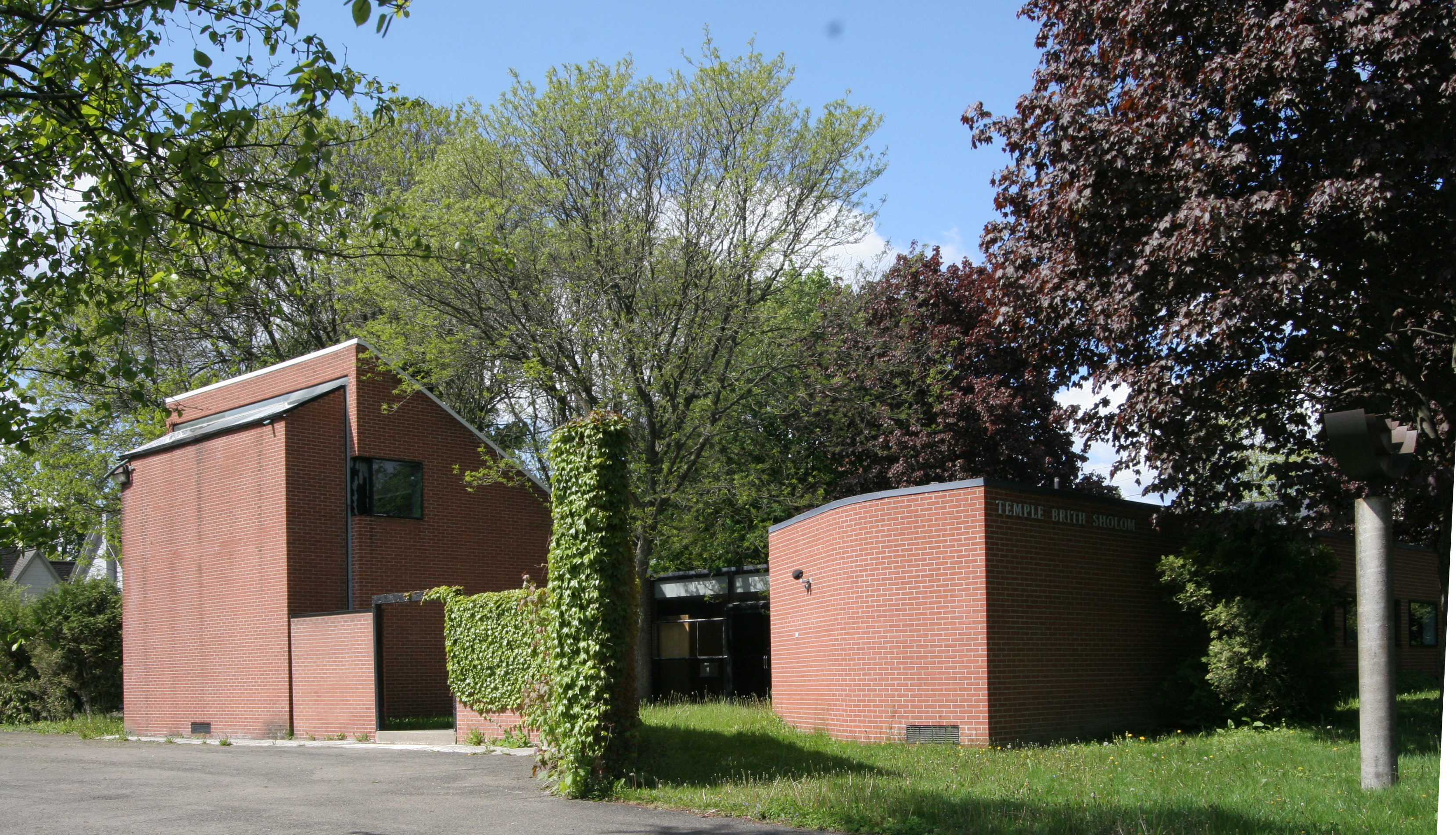 A small reform synagogue in a residential area of Cortland a few blocks from Seligmann's office. It was also Seligmann's synagogue.